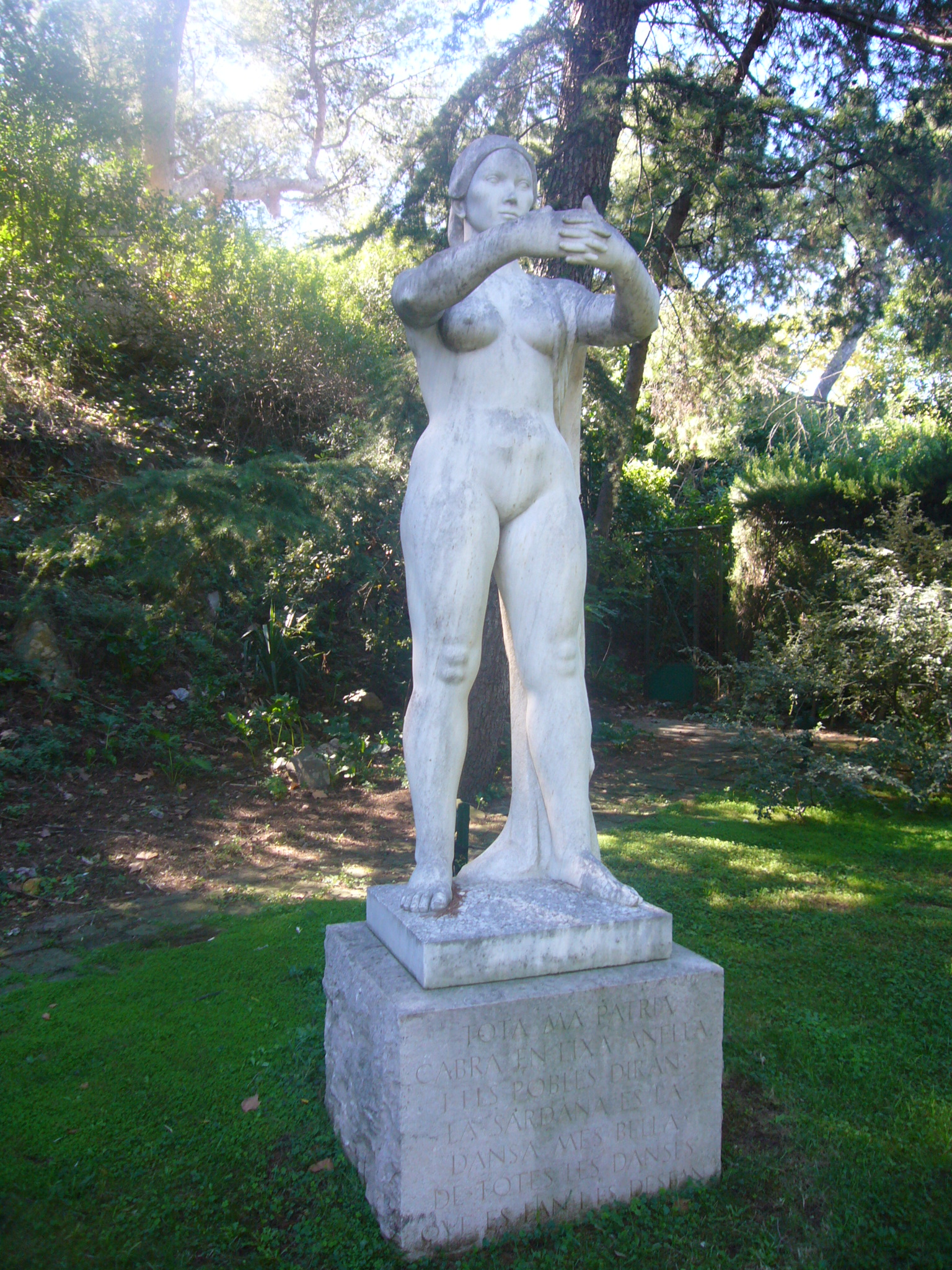 Sculptures in gardens of Palauet Albéniz. "Al·legoria a la sardana". Author: Ernest Maragall i Noble (1965)